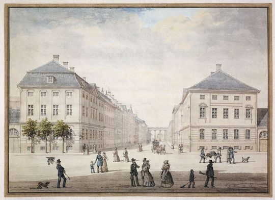 Sankt Annæ Plads in c. 1848 in Copenhagen, Denmark